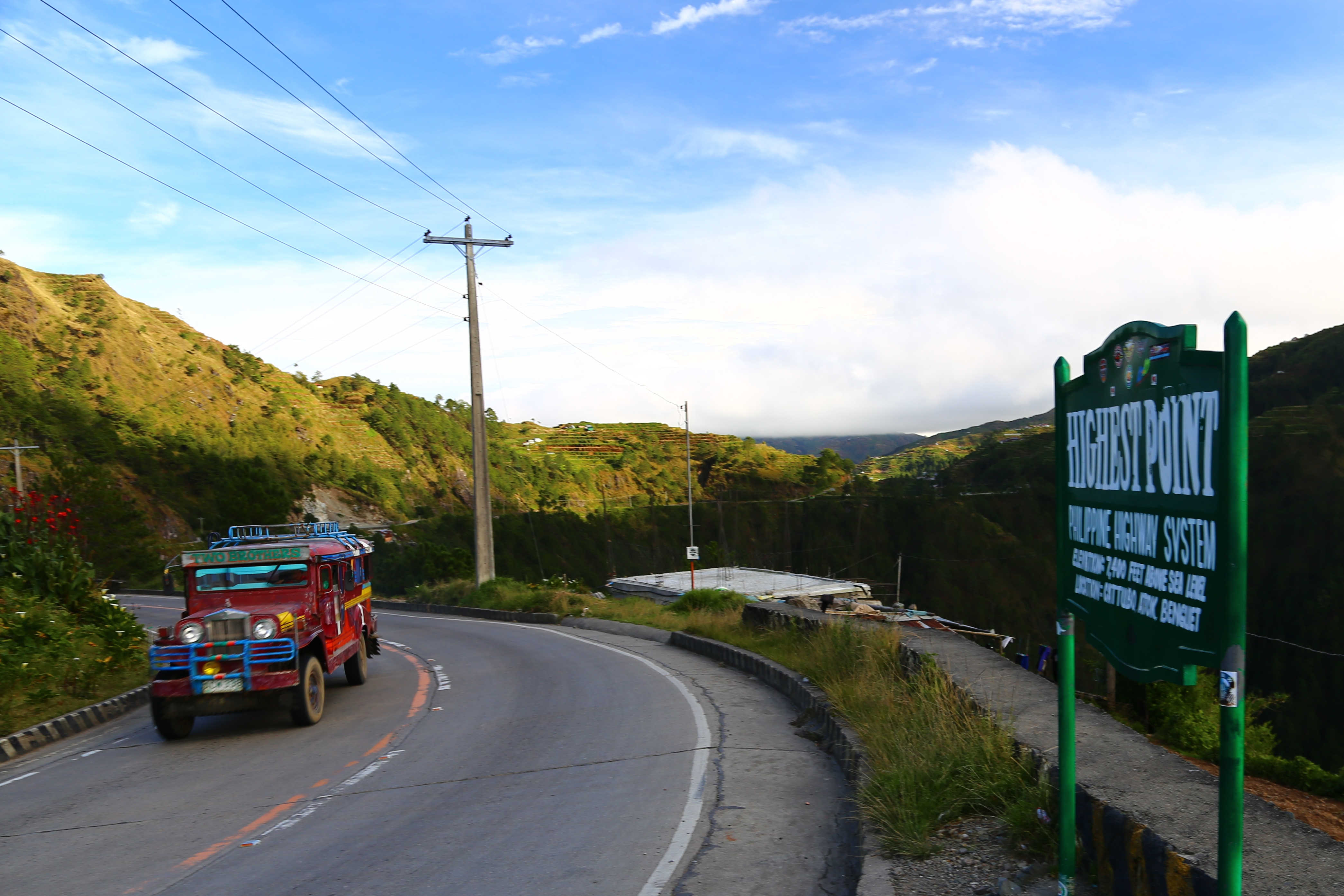 Highest point marker in the Philippine Highway System at Halsema Highway in Atok, Benguet. 7400 ft above sea level according to the marker